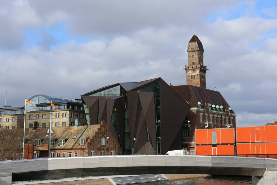 Fiskehamnsgatan 1, 211 18 Malmö, Sweden